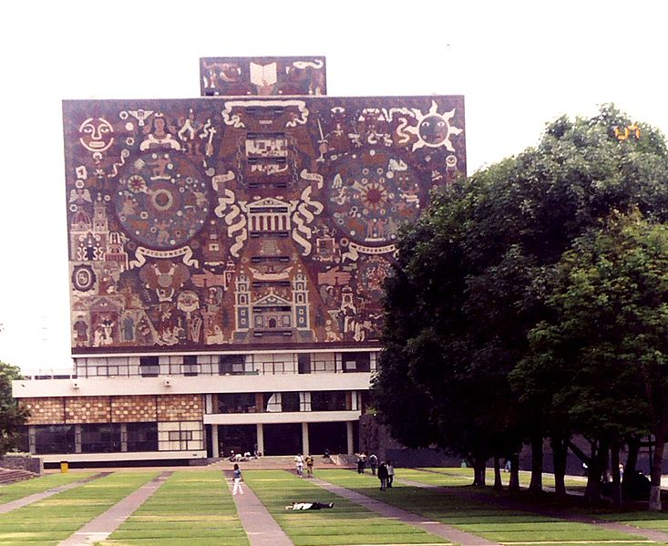 Mexico city is by far the capital of muralism. It has an impressive collection in the Pallace of Fine Arts(Palazo de las Bellas Artes) and here posted is an example of an outdoor mural with typical actec images, Moon and Sun stylized in the upper corners. It is in the University of Mexico (UNAM) and adornes the wall of the library. I cut myself from that picture of me with this gorgeous backdrop taken by my friend Felipe Quintana.